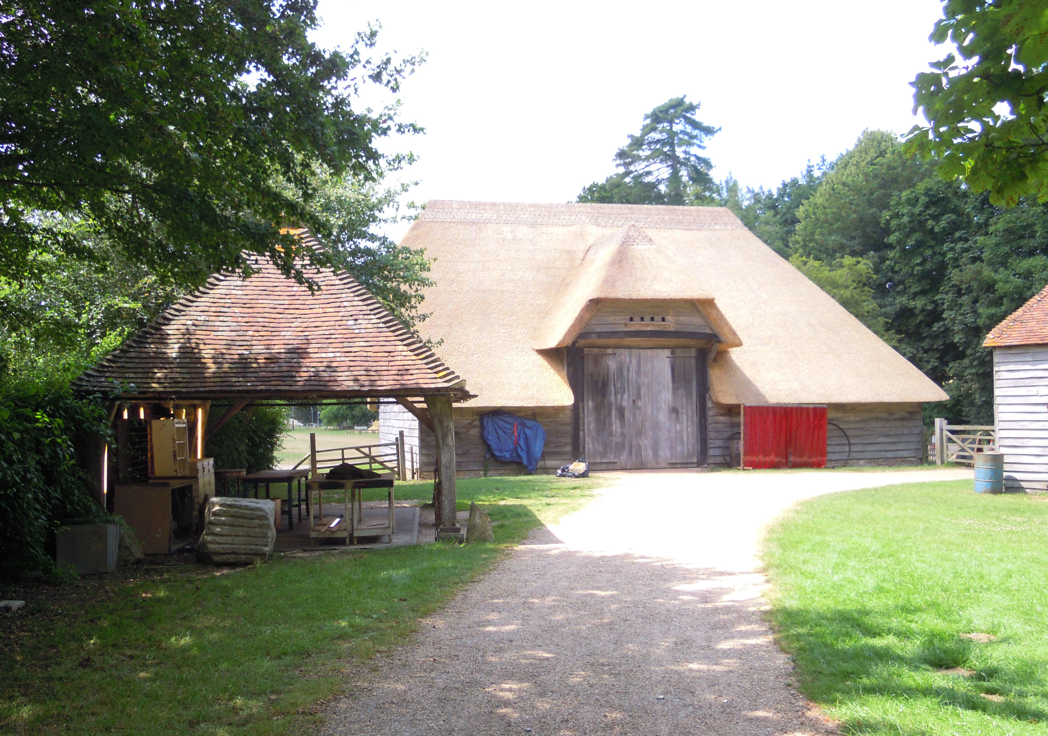 The barn at the Weald and Downland Living Museum used for filming the series 'The Repair Shop' as seen in July 2019